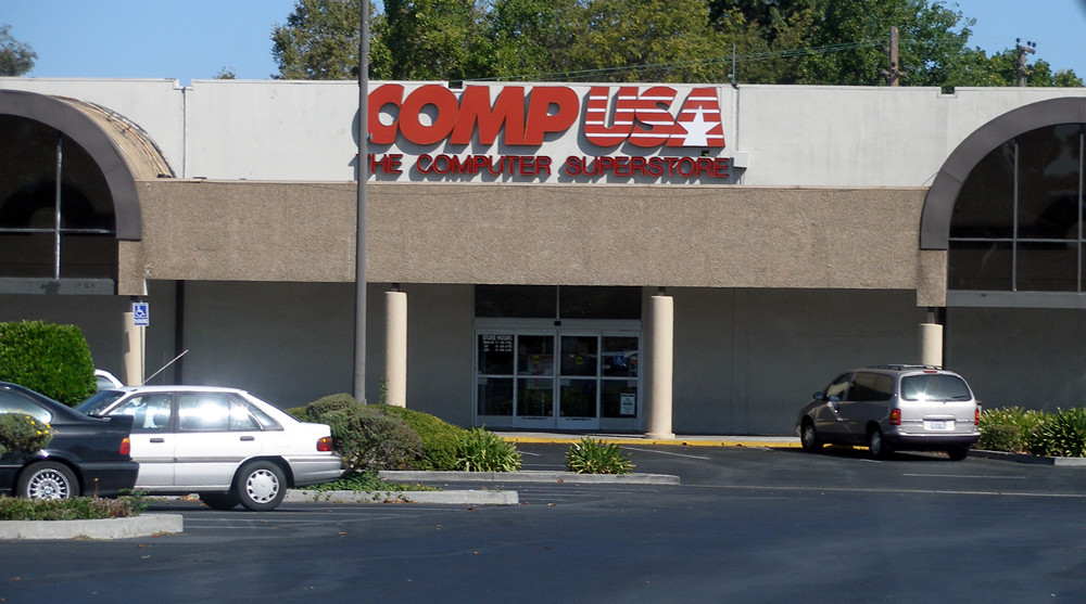 Typical CompUSA store, on El Camino Real in Santa Clara.